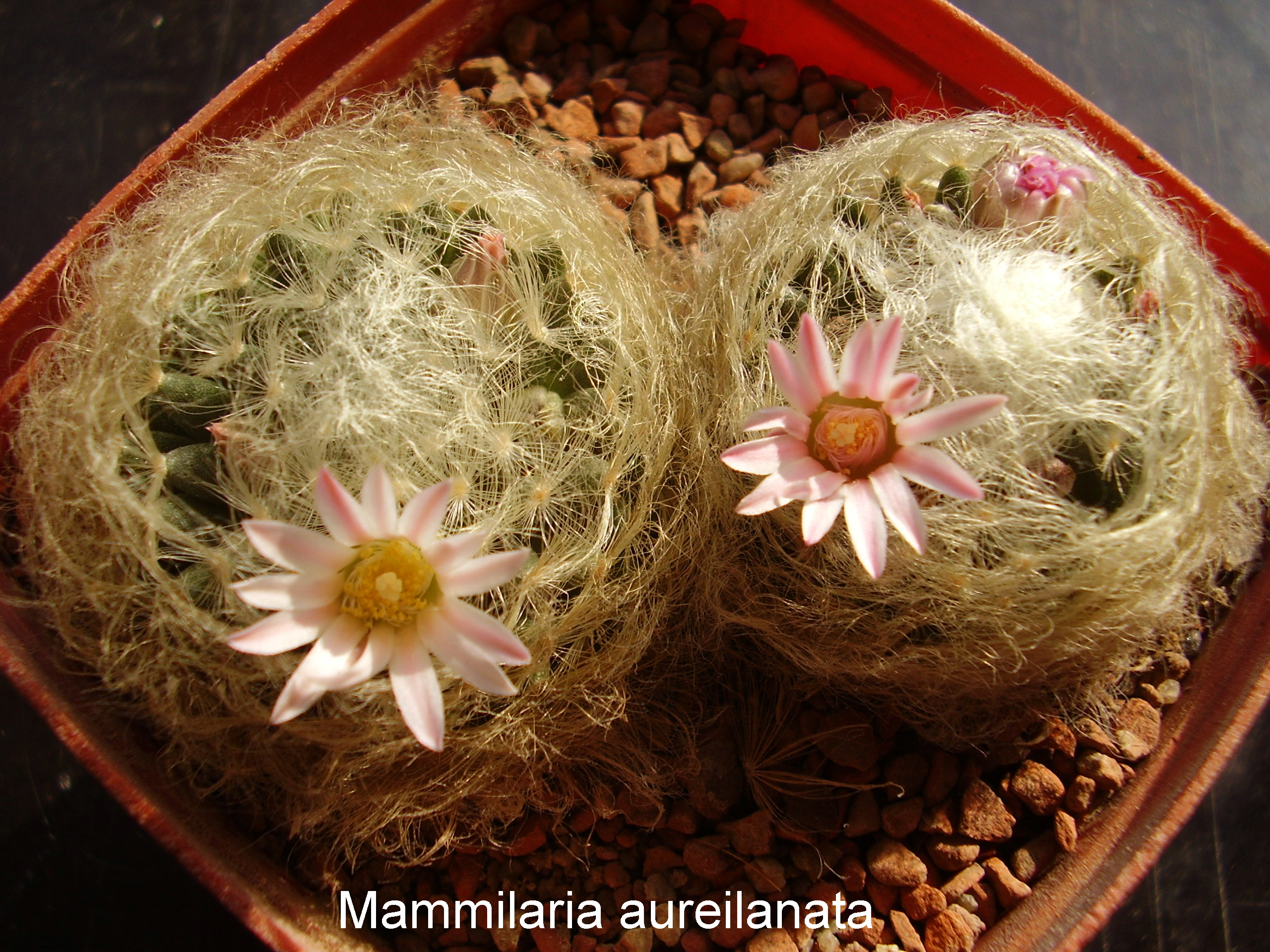 Mammillaria aureilanata from collection of Yuriy Shostak, Mykolaiv, Ukraine